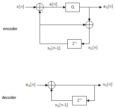 encoder and decoder DPCM by difference between two consecutive samples (version 2. Analysis-by-synthesis)